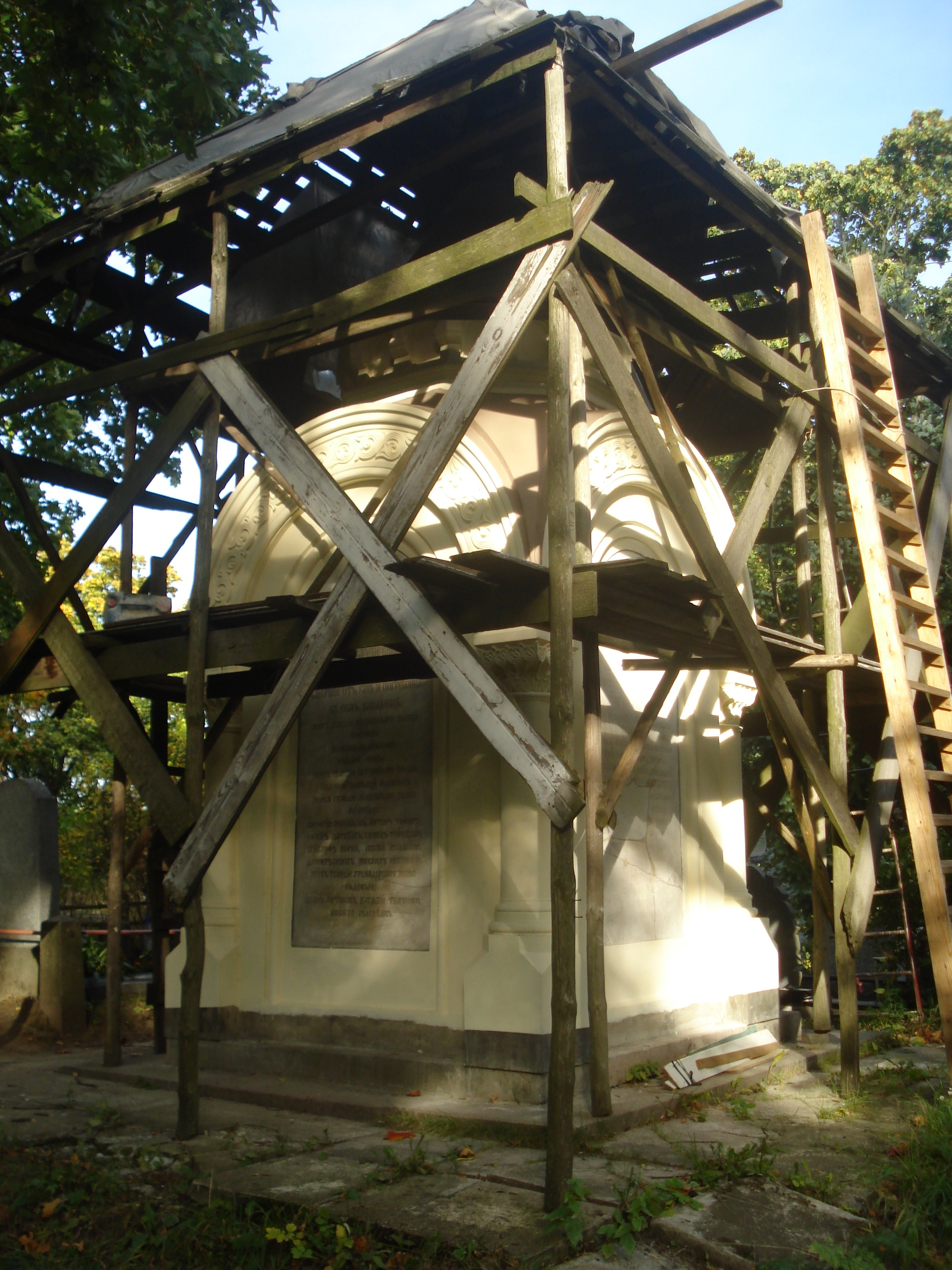 Orthodox Chapel of Saint George in memory of Russian officer and soldiers fallen during January Uprising in the Euphrosyne Cemetery in Vilnius (Liepkalnių g.)